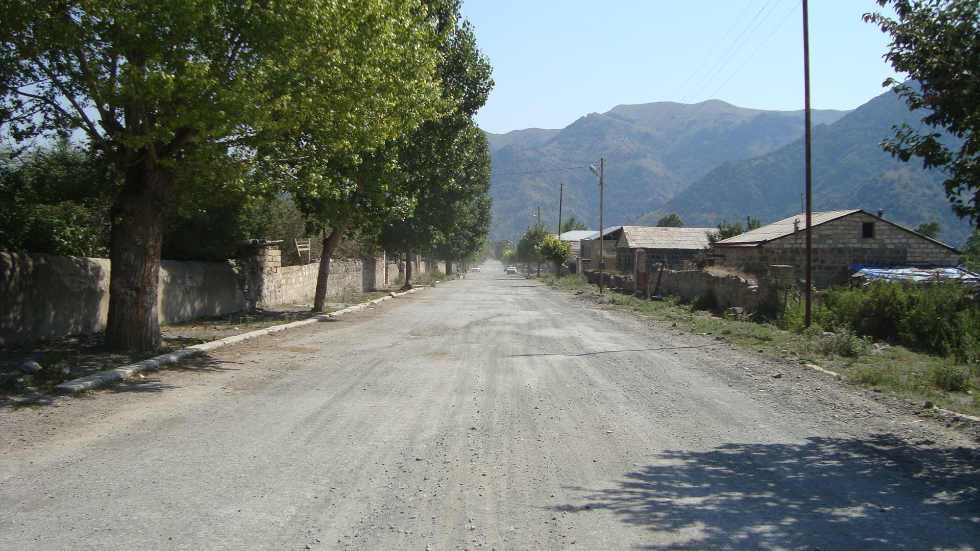 A main street in Karvachar (Republic of Mountainous Karabakh).